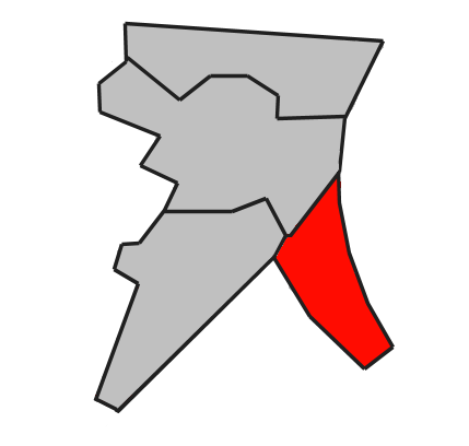 Selfdrawn map of a neighbourhood in Steenbergen.